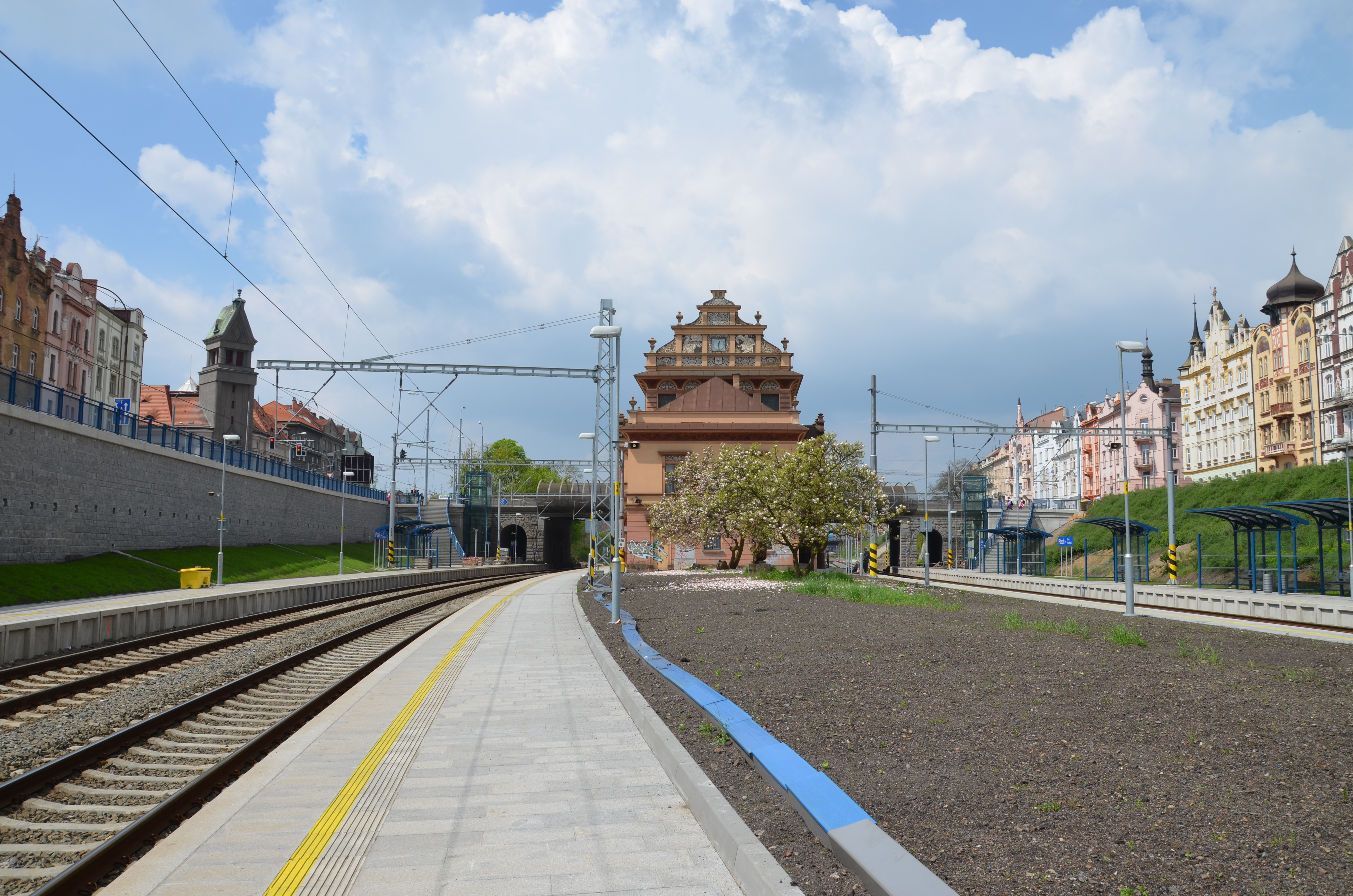 Plzeň jižní předměstí, Railway line 170 (Praha-)Plzeň-Cheb